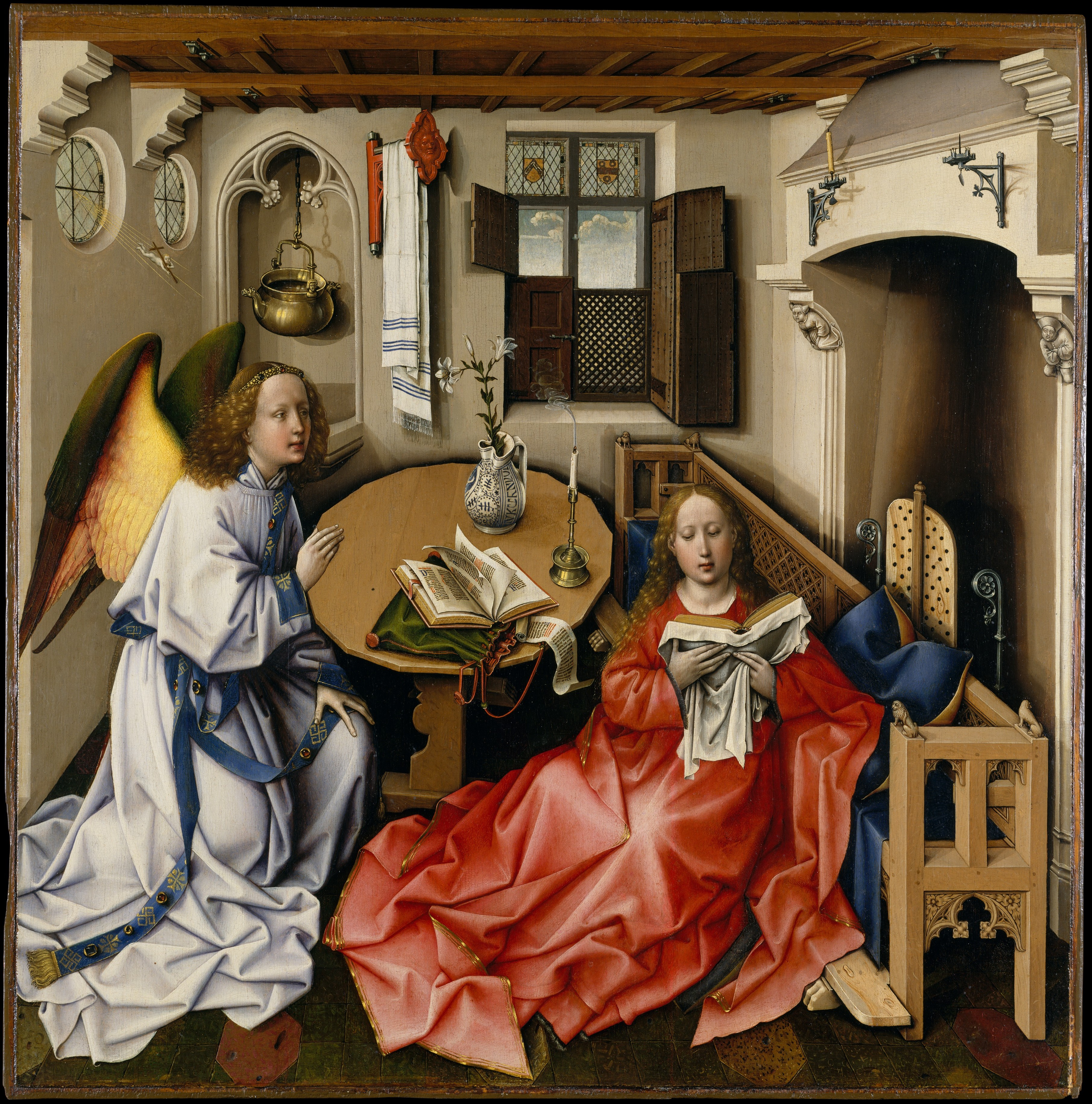 South Netherlandish; Altarpiece; Paintings-Panels